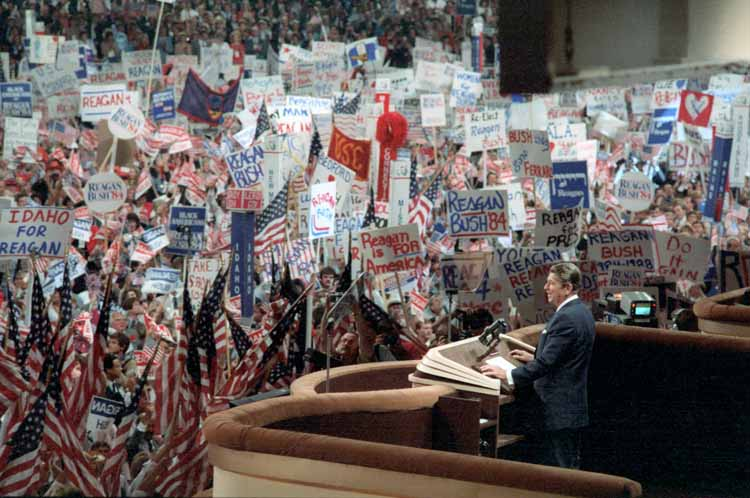 President Reagan giving his acceptance speech at the Republican National Convention, Dallas, Texas. 8/23/84